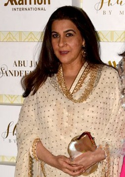 Amrita Singh at Shaadi By Marriott showcase in 2017.